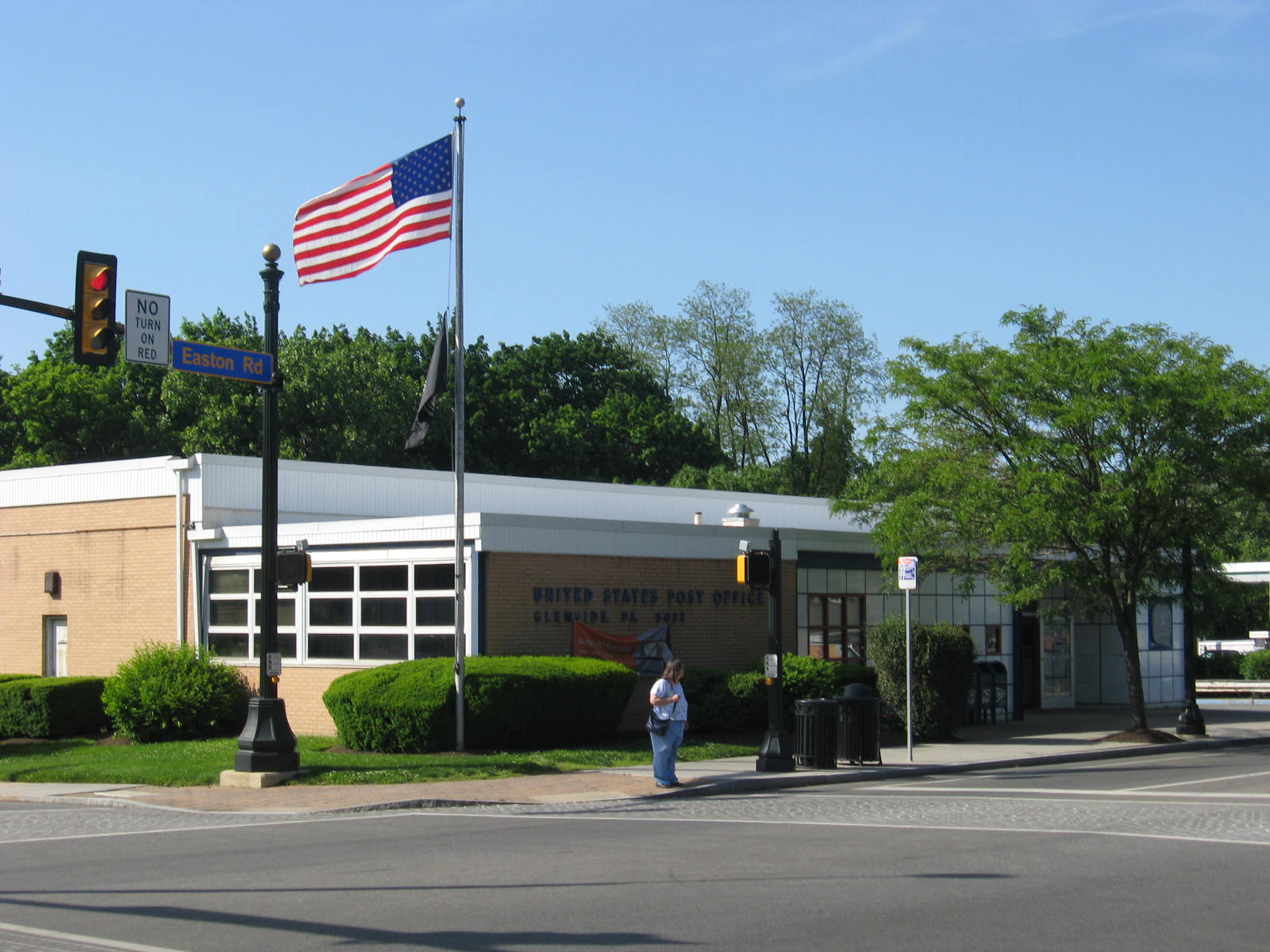 Glenside Post Office